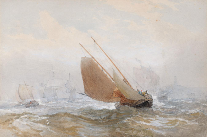 watercolour over pencil heightened with scratching out and bodycolour, with studio stamp l.r. 32.5 by 48 cm., 12 3/4 by 19 in.